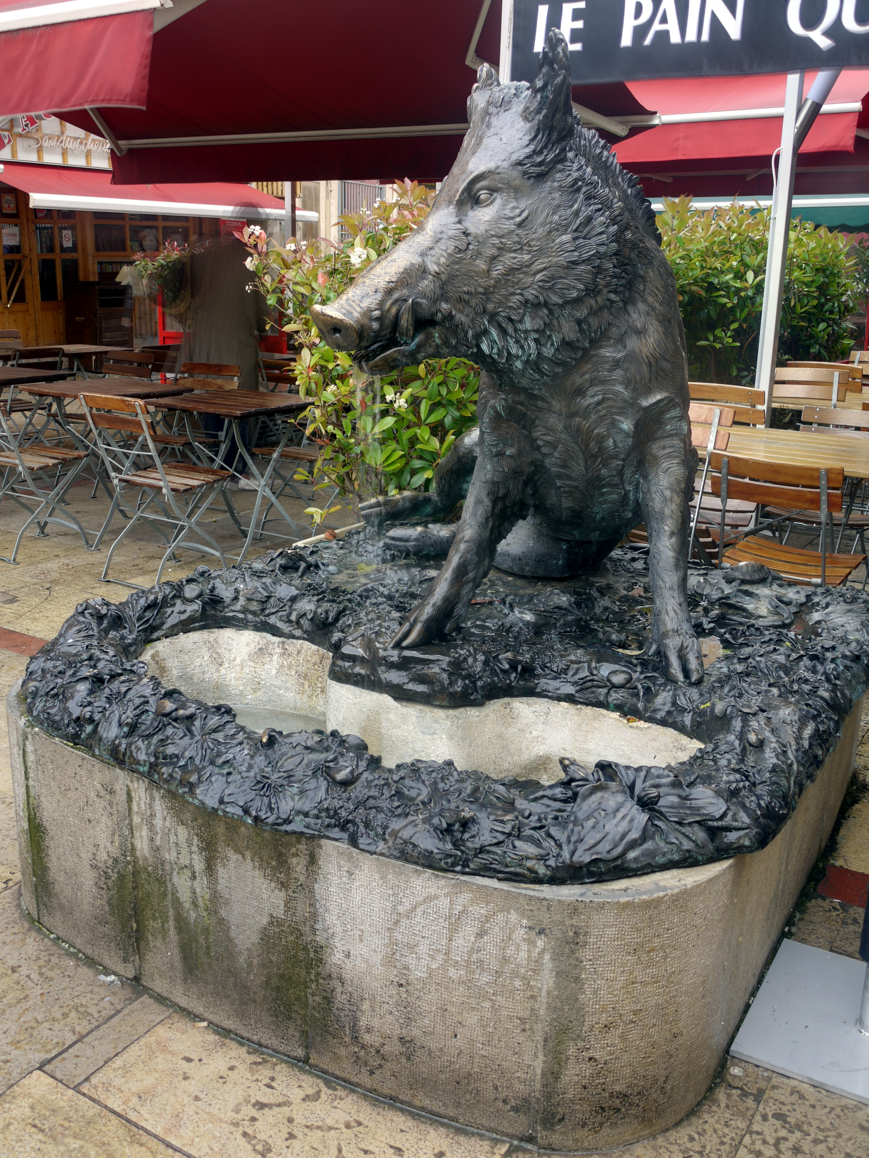 Fountain of the Sanglier (Wild Boar) in Aix-en-Provence in France.